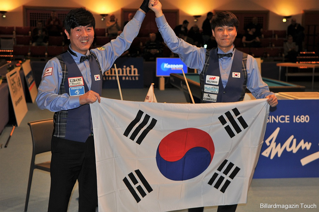 Winning team from South Korea (Kim Jae-guen, Choi Sung-won)